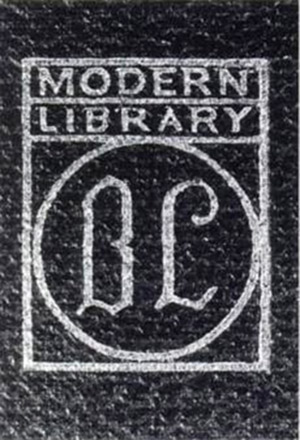 Boni & Liveright first colophon, used as early as 1917